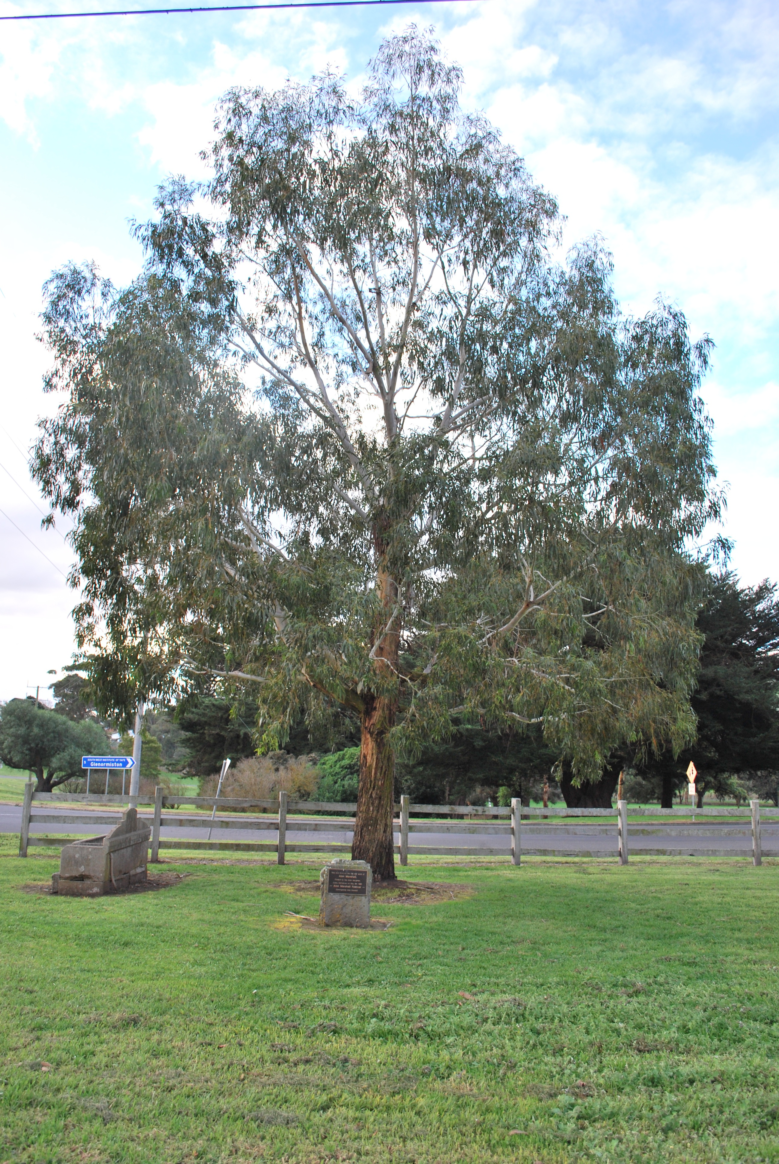 Alan Marshall (writer) memorial tree at Noorat, Victoria